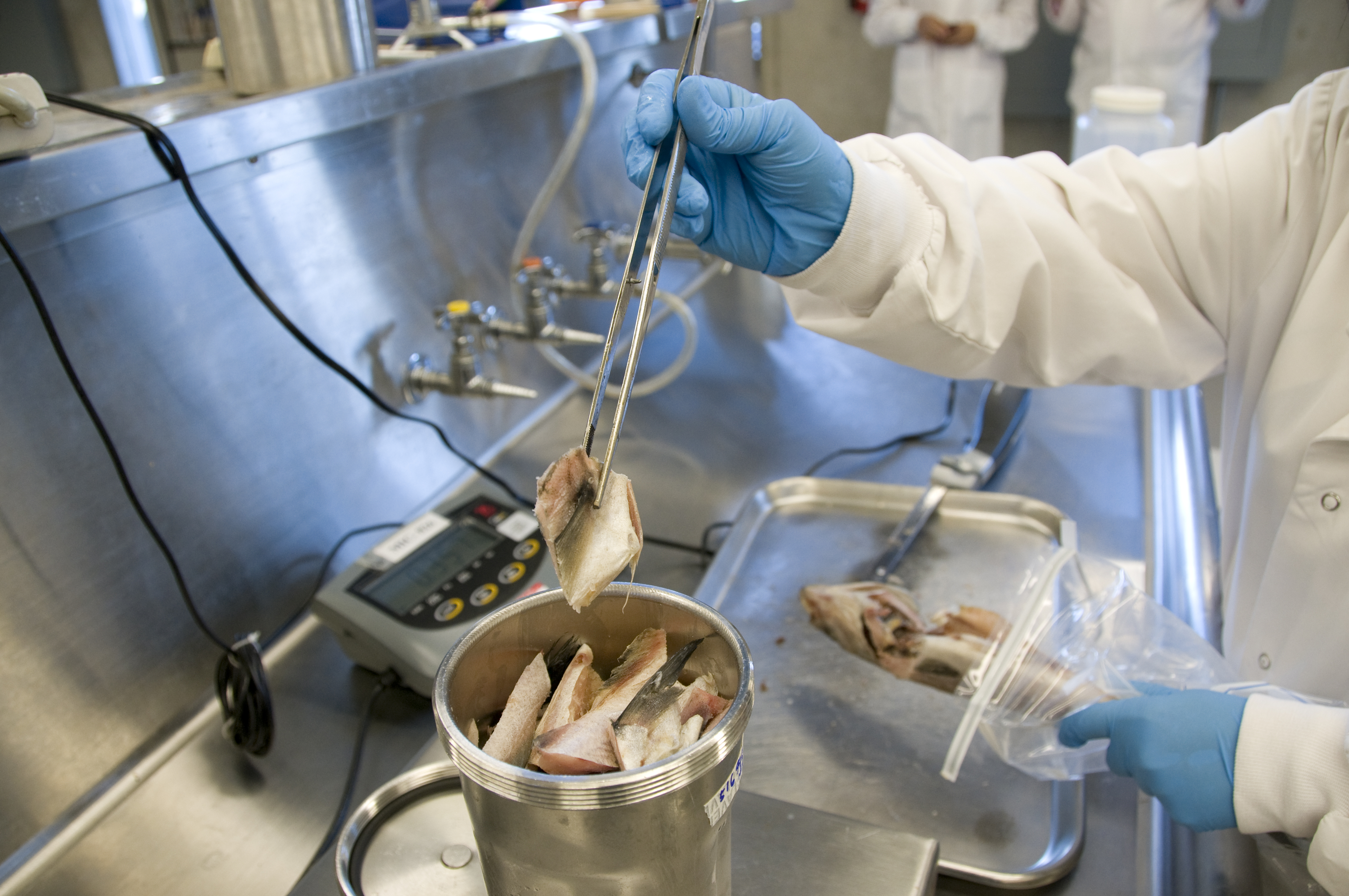 Feb. 5, 2009; Irvine, CA – An FDA microbiologist mixes seafood samples with an enrichment broth to test for microorganisms. To learn more about how FDA is helping to ensure seafood safety, read these Consumer Updates: Fish Hazards and Controls: More Than a Fish Story How FDA Regulates Seafood: FDA Detains Imports of Farm-Raised Chinese Seafood This photo is free of all copyright restrictions and available for use and redistribution without permission. Credit to the U.S. Food and Drug Administration is appreciated but not required. Privacy and use information: FDA photo by Michael J. Ermarth